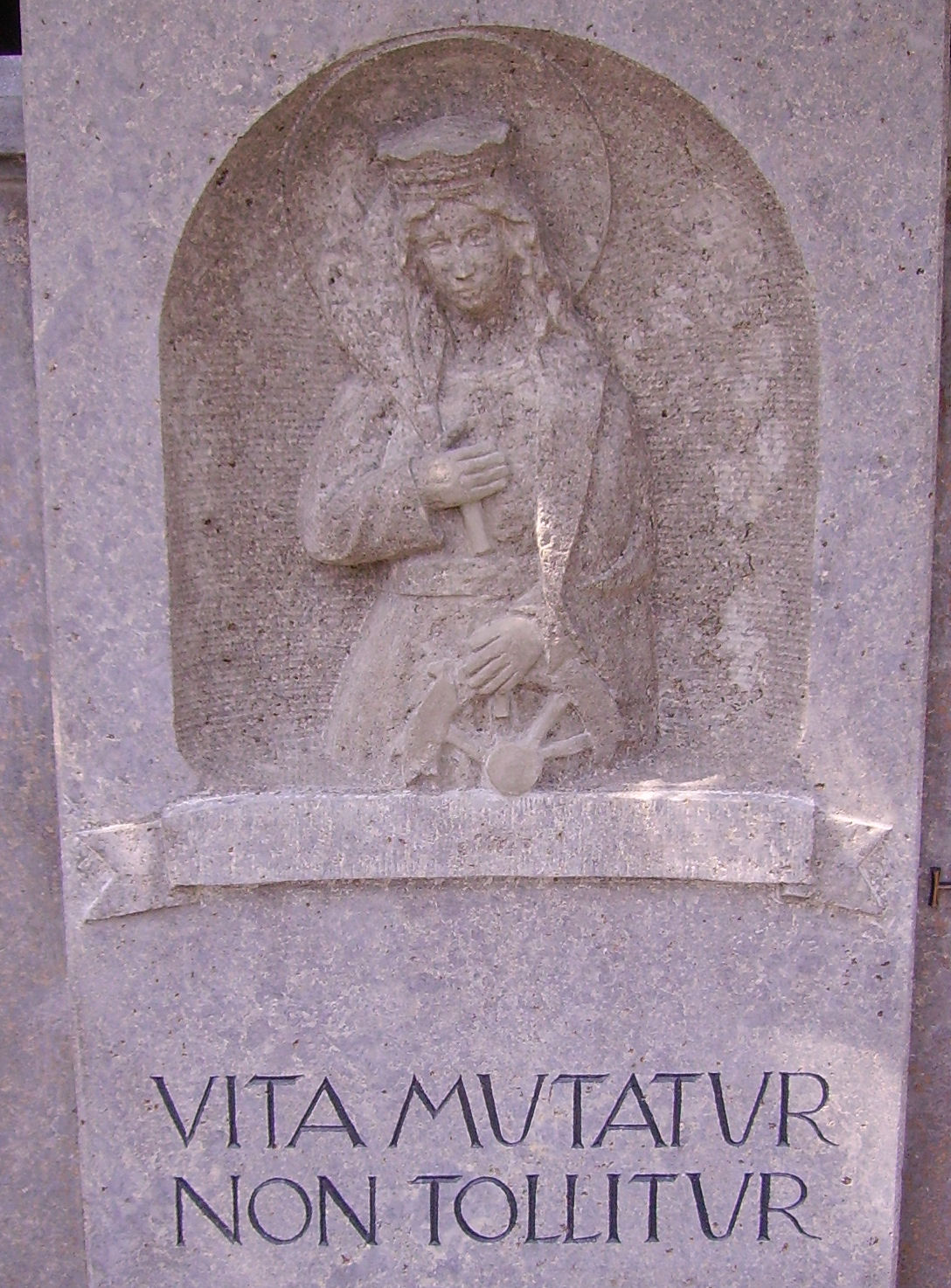 tombstone in Bamberg, Germany